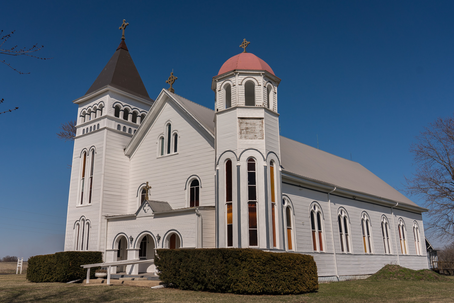 St. Mary's Church is a historic turn-of-the-20th century Catholic church located in the unincorporated community of Adair, 12 miles northeast of Kirksville, Adair County, Missouri on Missouri Route 11.